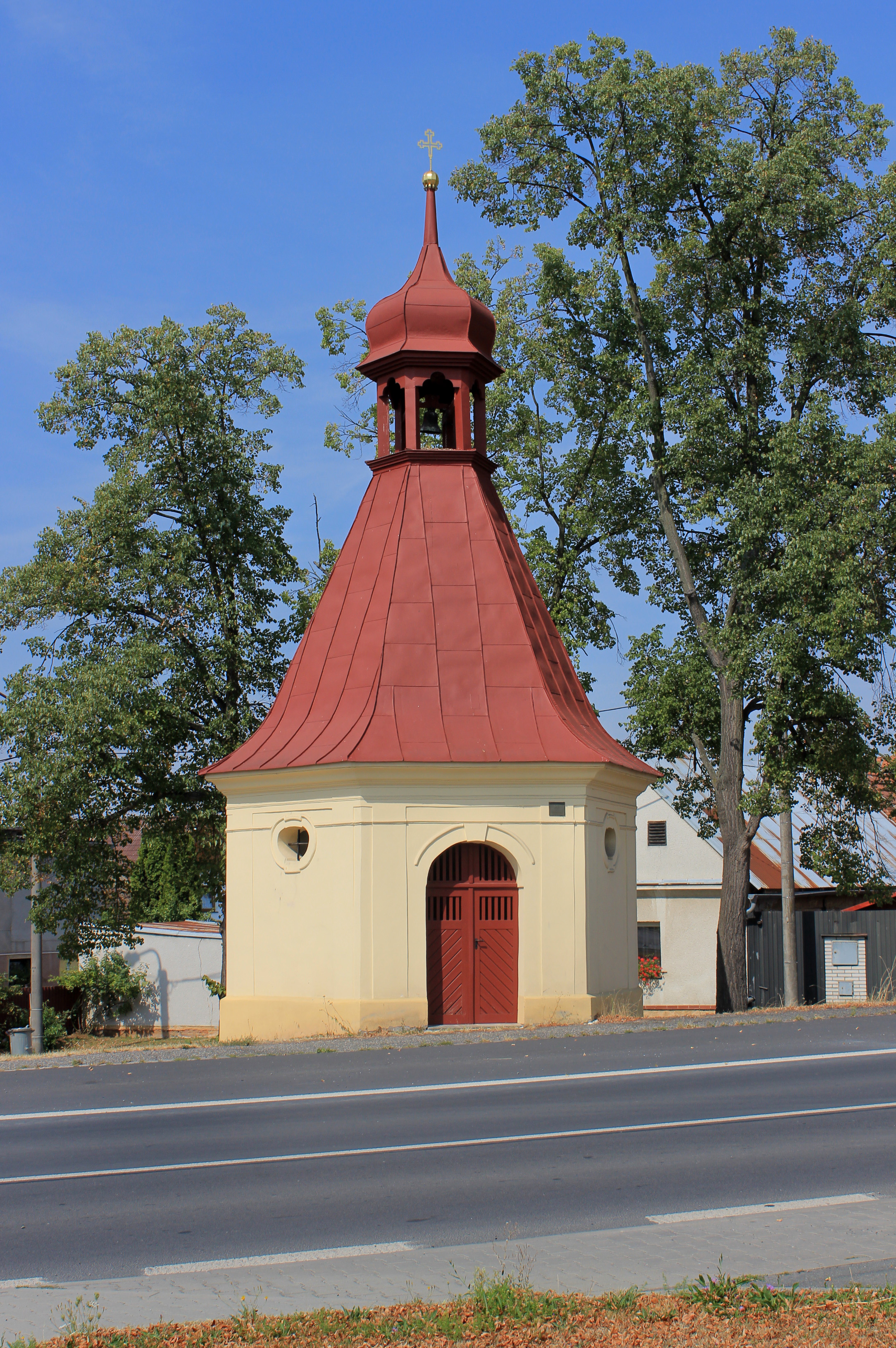 Chapel in Šlovice, part of Dobřany, Czech Republic.